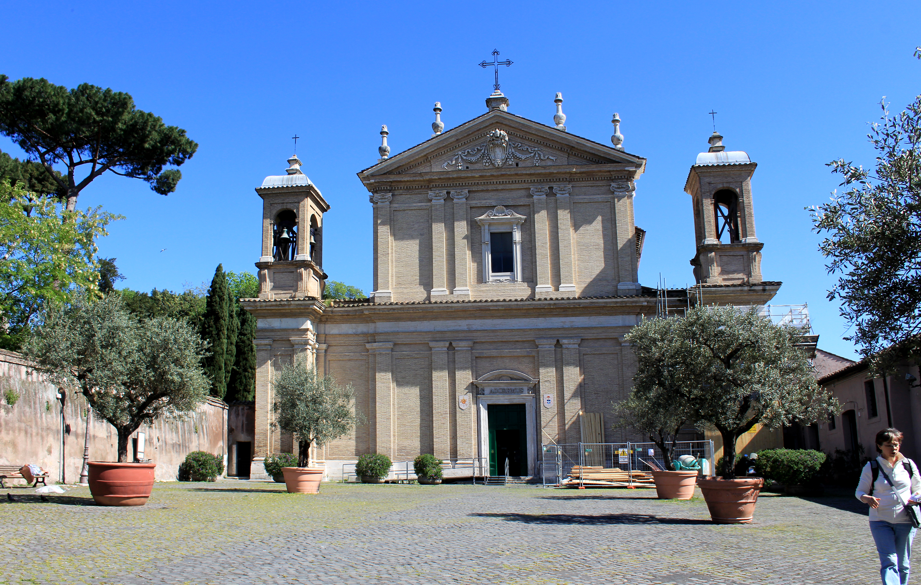 Basilica di Sant'Anastasia al Palatino, Rome, Italy